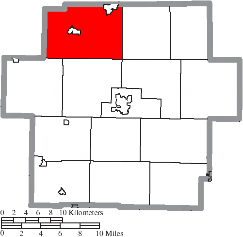 Map of the municipal and township boundaries of Carroll County, Ohio, United States, as of the 2000 census, with the location of Brown Township highlighted. Township borders are shown only in unincorporated areas in order to differentiate incorporated and unincorporated areas more clearly.